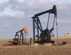 Oil pumpjacks in west Texas